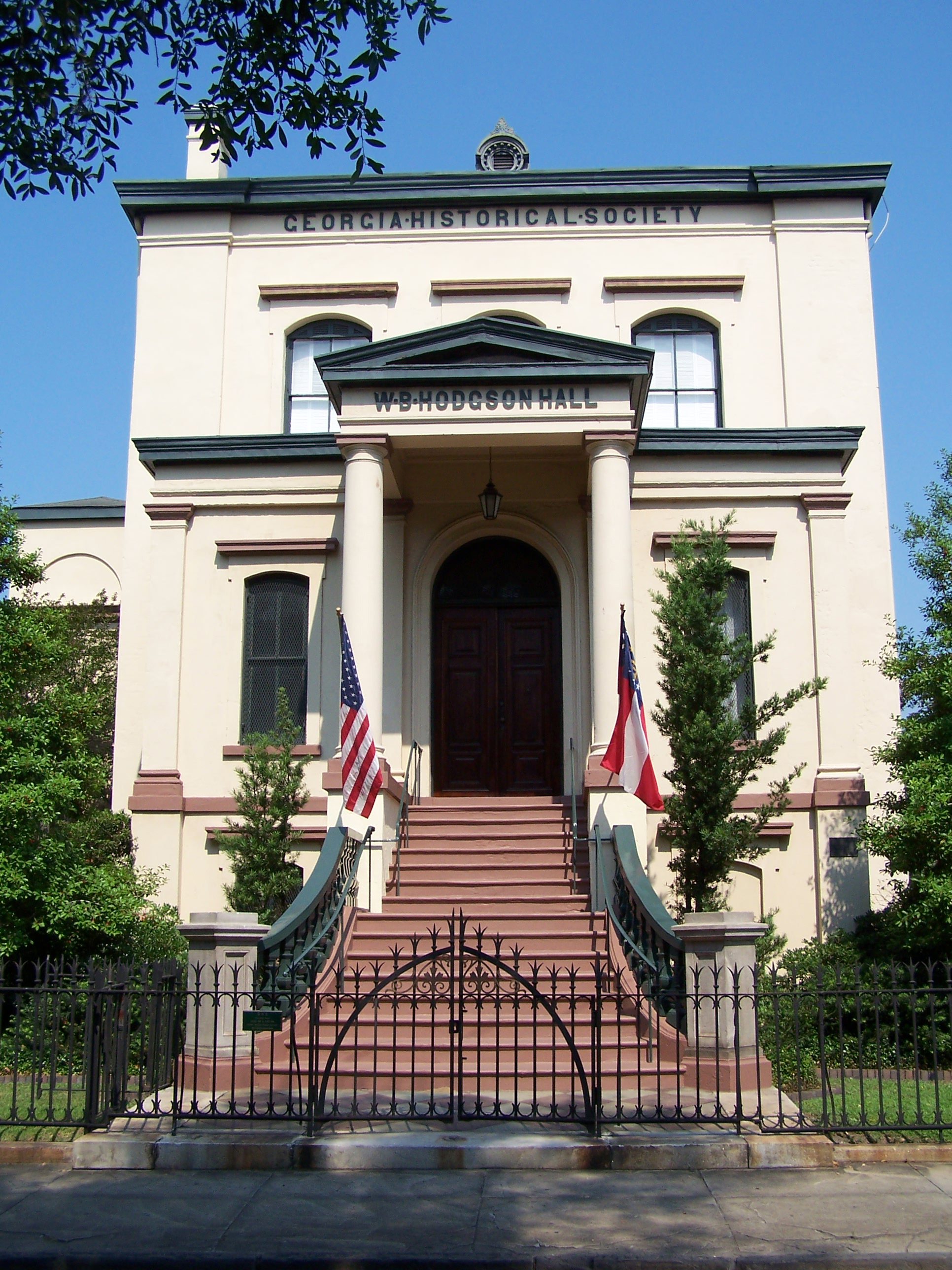 Hodgson Hall, headquarters of the Georgia Historical Society